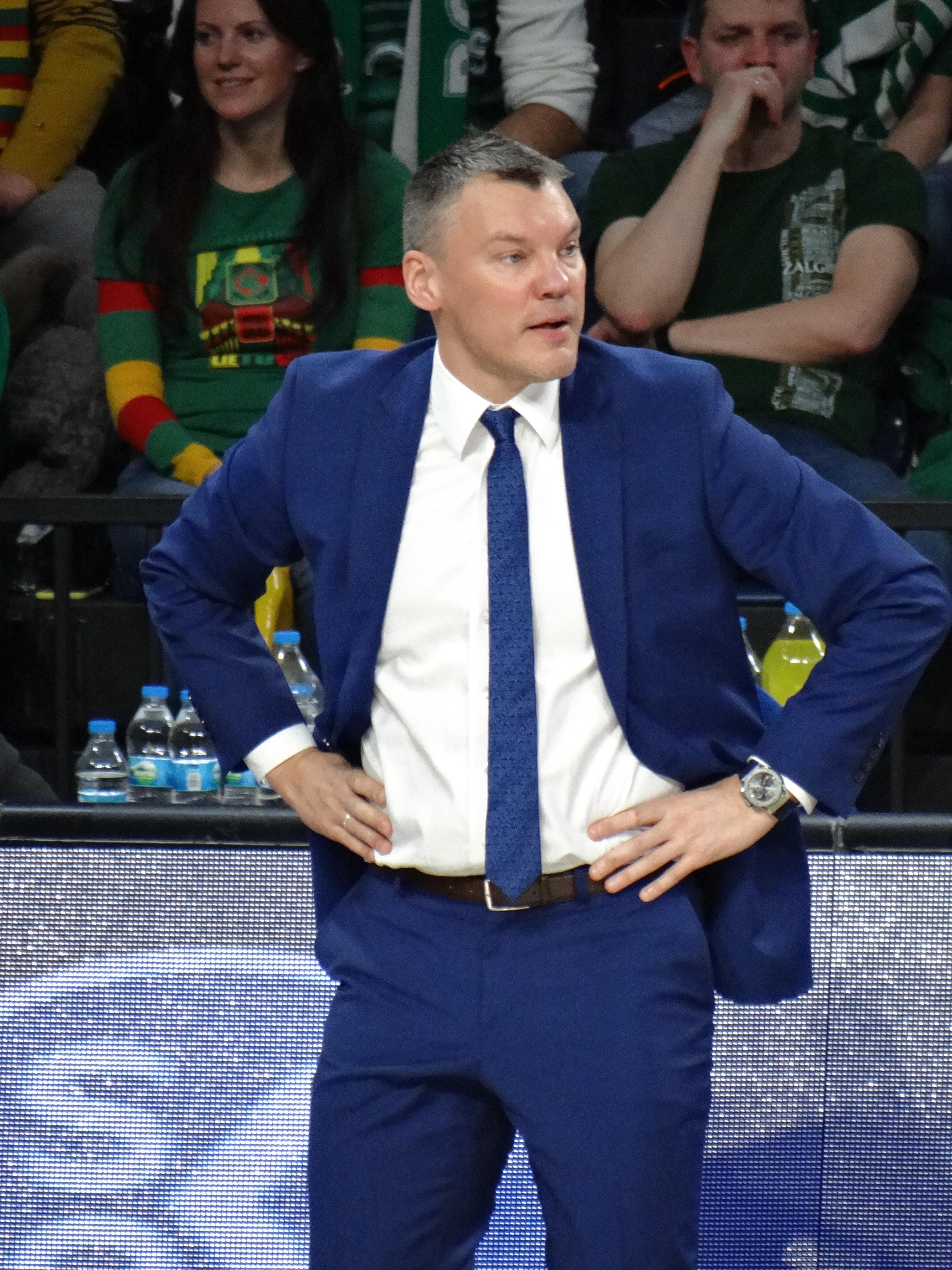 Šarūnas Jasikevičius BC Žalgiris EuroLeague 20180223